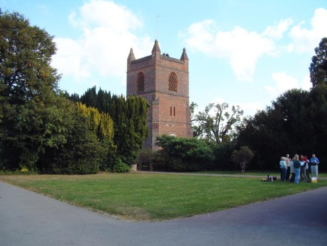 Early 18th-century west tower St James' parish church, Finchampstead, Berkshire